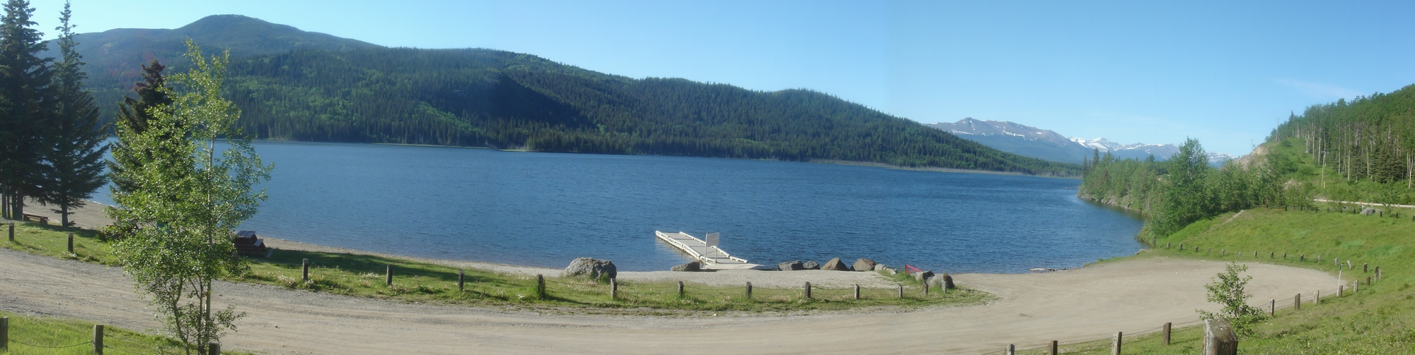 Grande Cache Lake, east of Grande Cache, Alberta, Canada